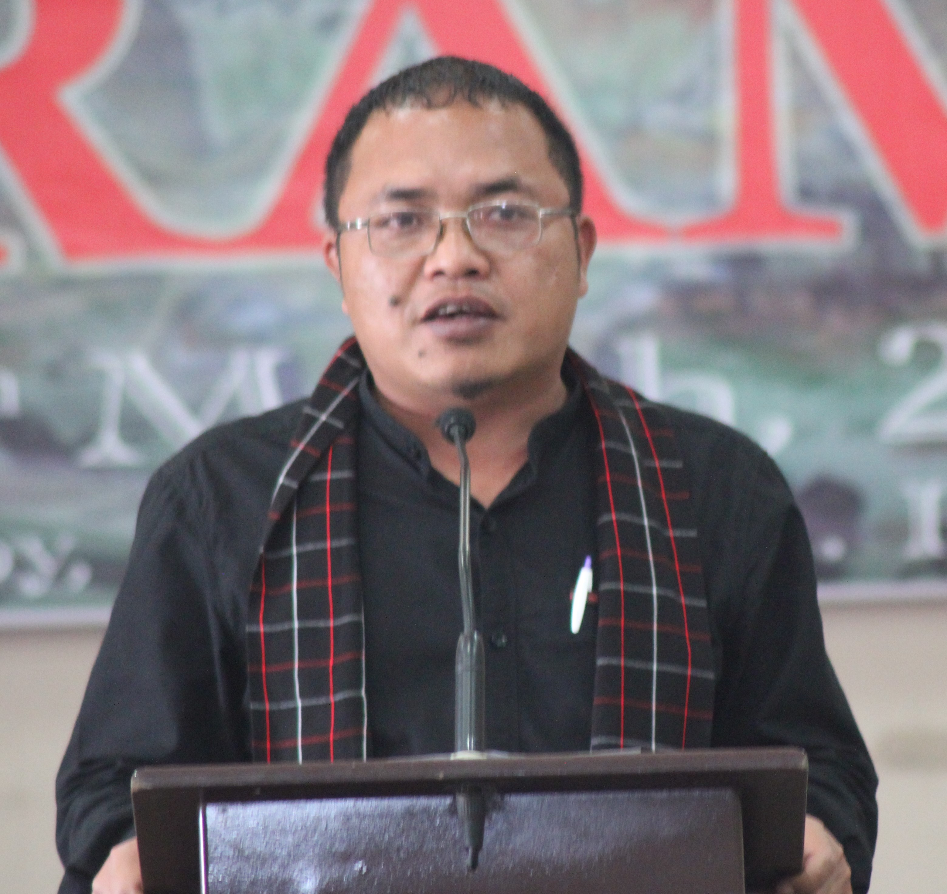 President